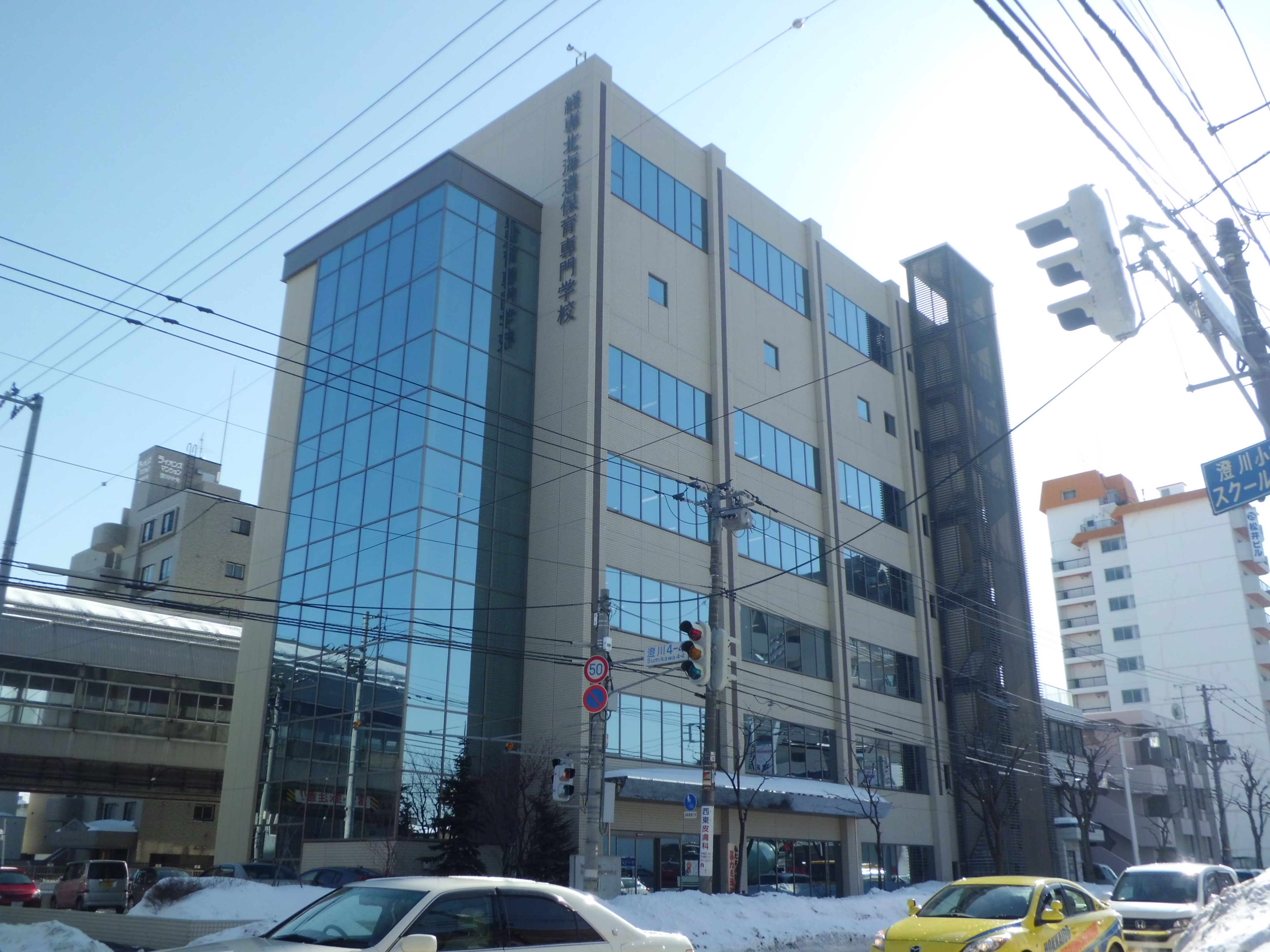 Hokkaido College of Childcare